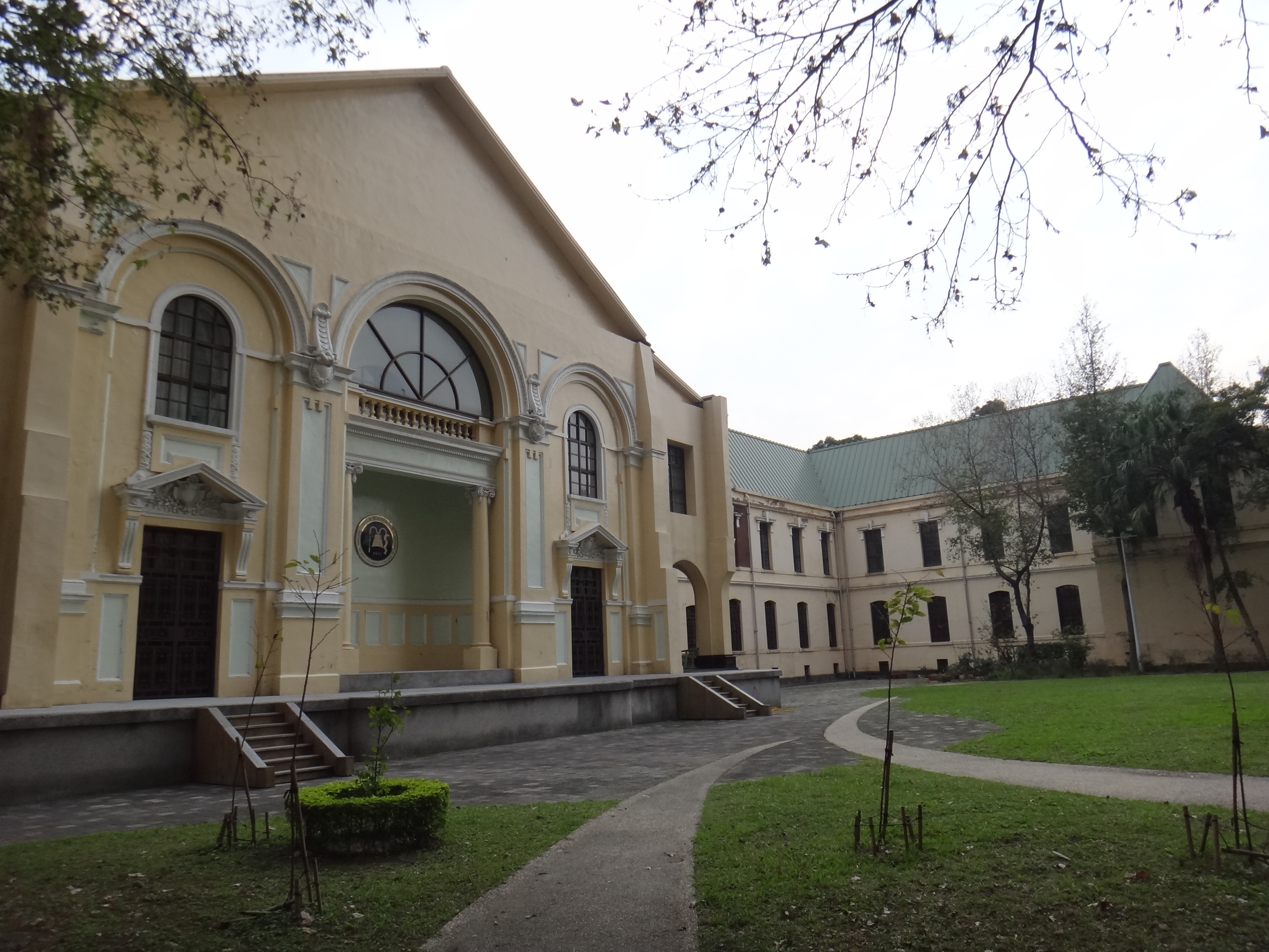 Museum of Medical Humanities.中文（台灣）: 臺灣大學醫學人文博物館（景福園側）。